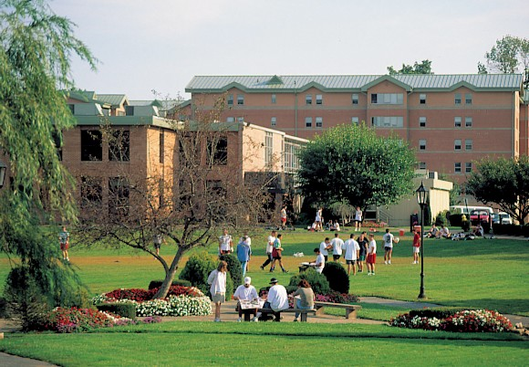 Sacred Heart University campus